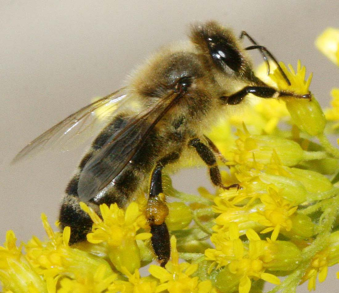 Carniolan honey bee (Apis mellifera carnica) on goldenrod (solidago).